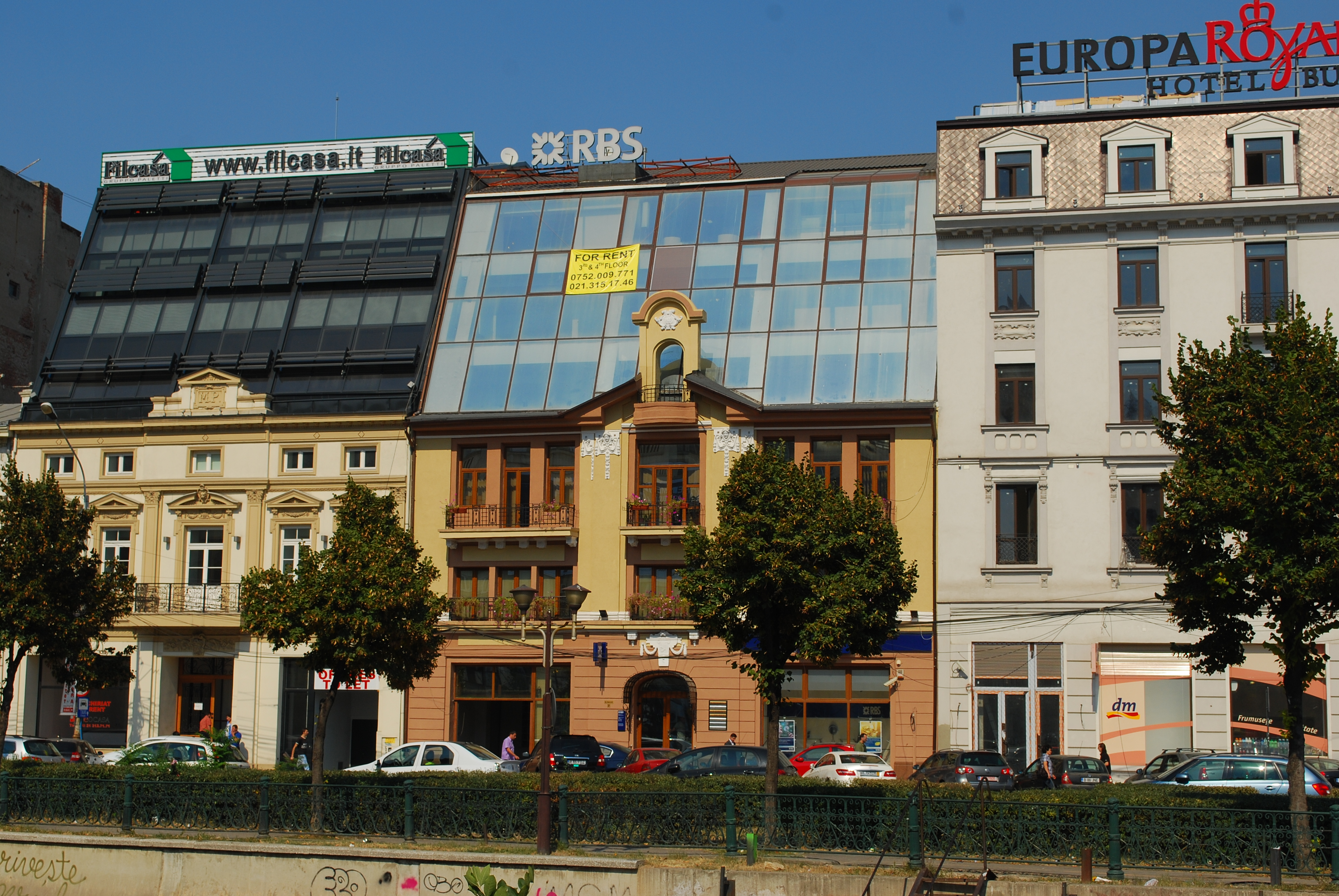 Buildings on Halelor street in the center of Bucharest, RomaniaRomână: Clădiri de pe strada Halelor, în centrul oraşului Bucureşti, România